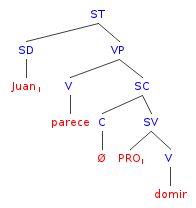 An complex sentence with implicit subordinate clause